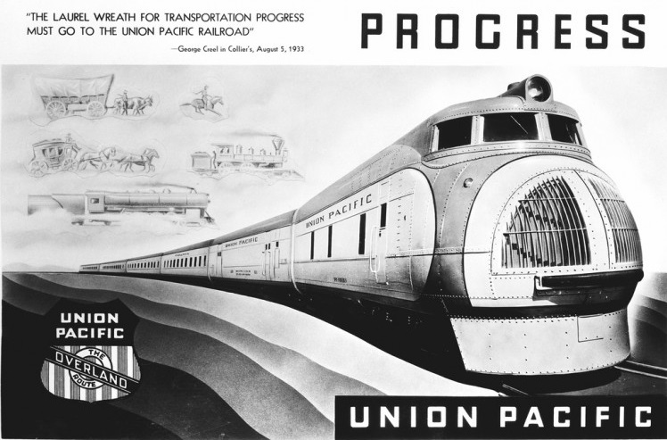 Union Pacific brochure 1934 for new M-10001 (1935 named as "City of Portland") Streamliner Trainset